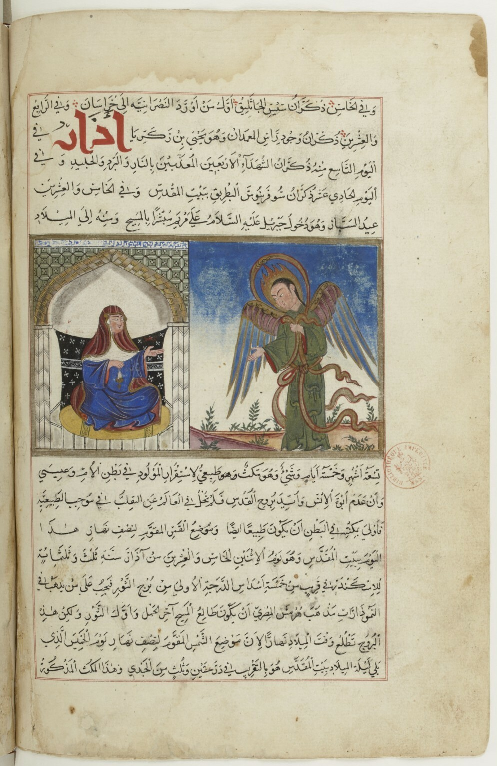 Islamic picture of Annunciation (Mariam)